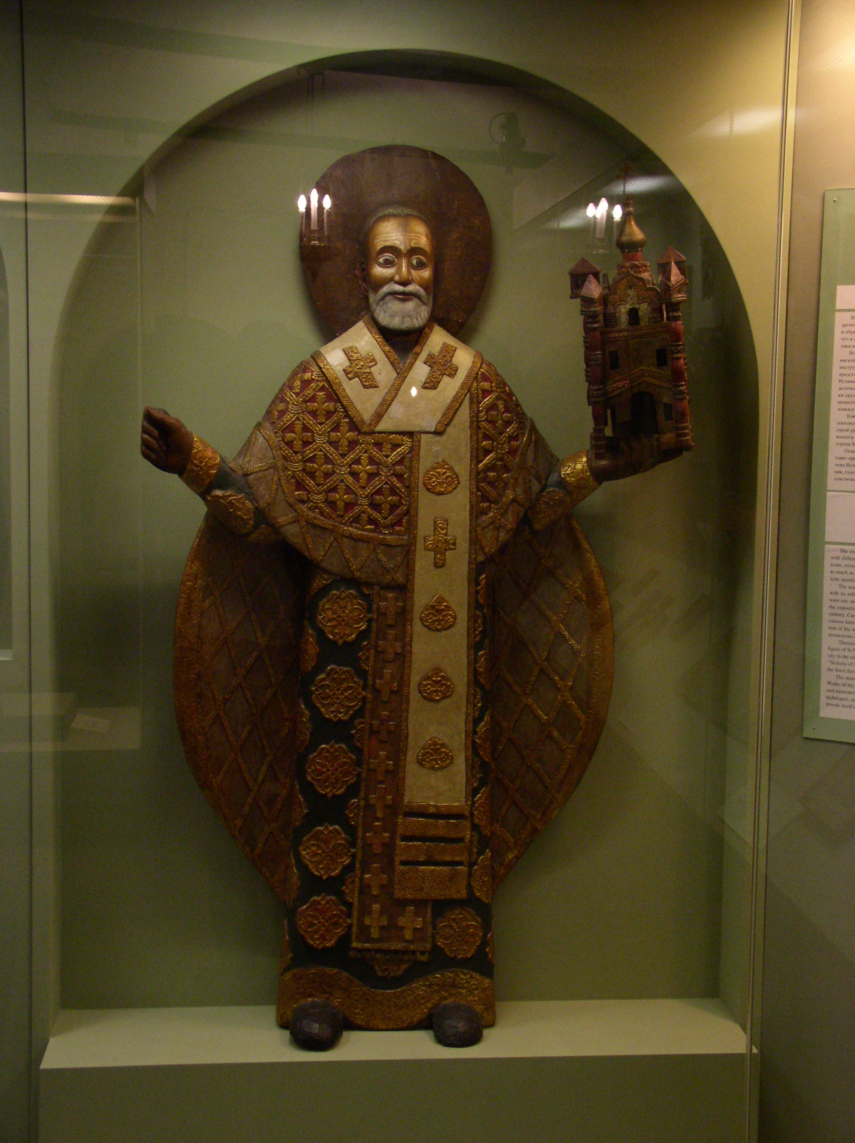 Moscow Kremlin museums exhibitions. Moscow, Russia.